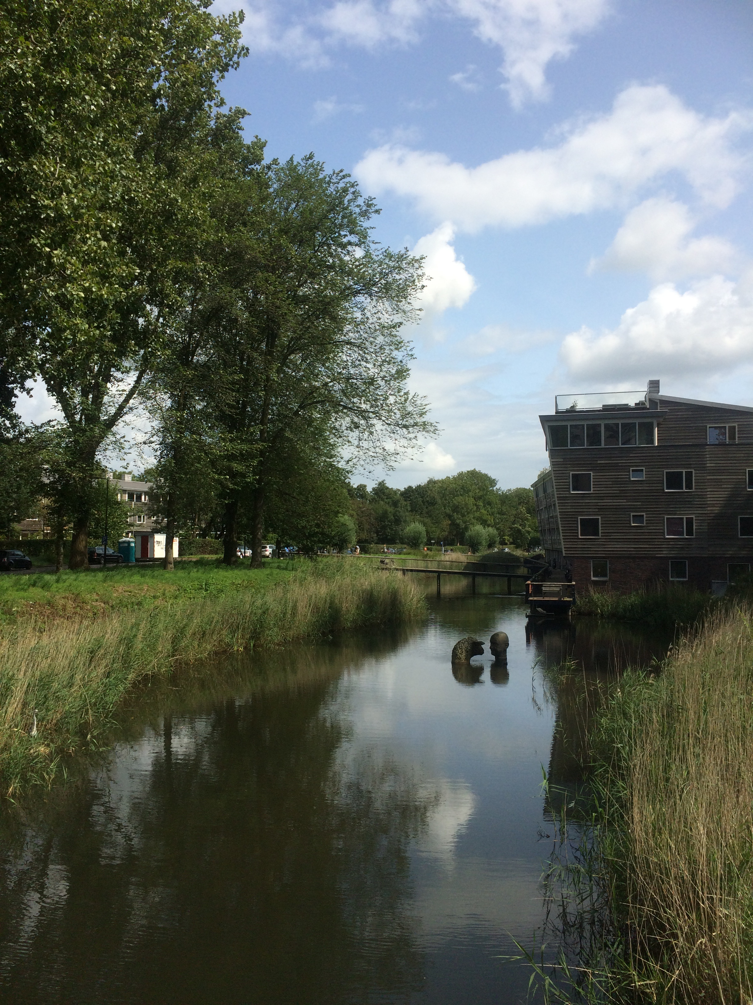 Statue in water with heads of sheep and human